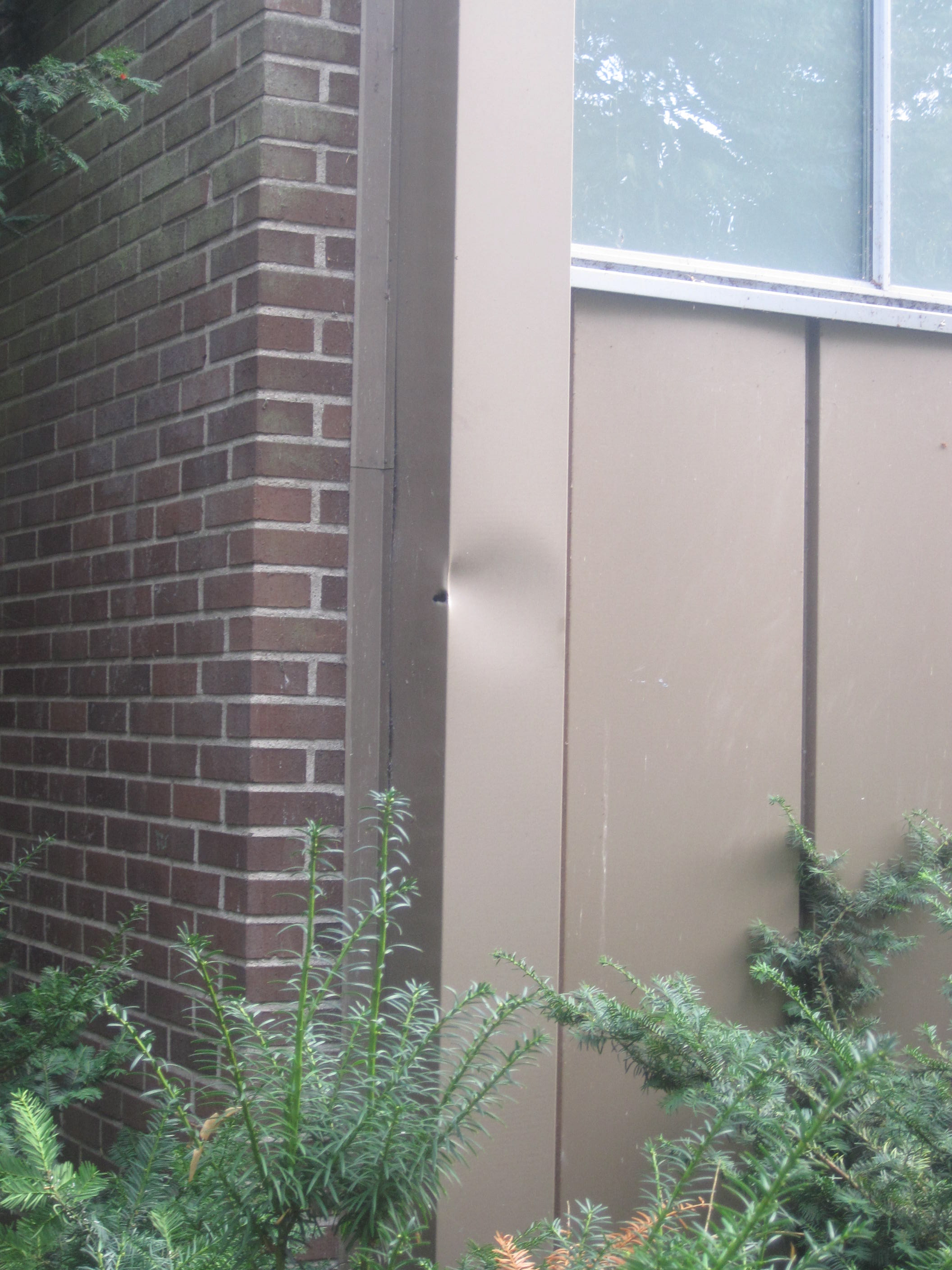 Bullet holes in the outer walls of a gym belonging to Malmö Borgarskola, Sweden. According to the police the hole was made by Peter Mangs, the man behind the en:2009–10 Malmö shootings.